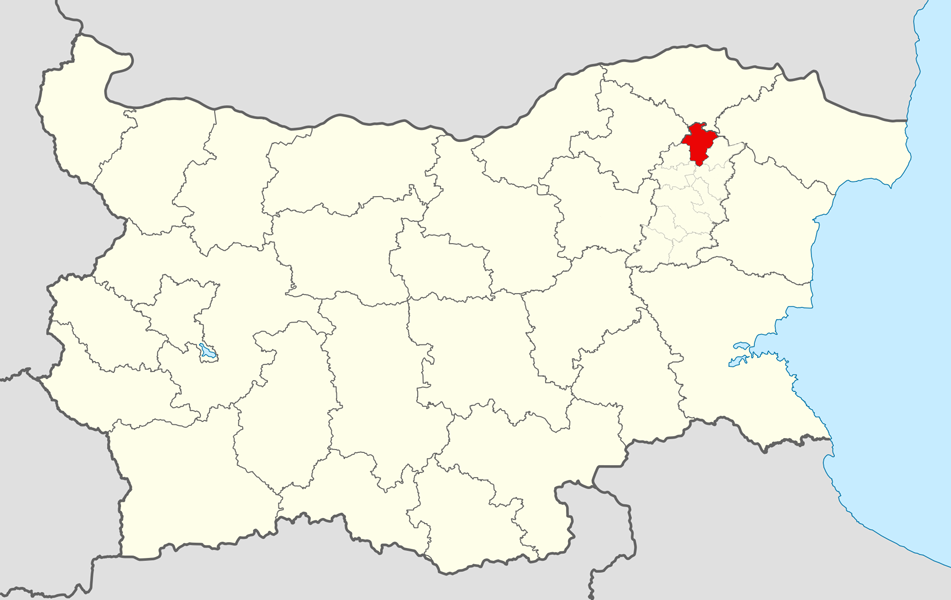 Location map of Kaolinovo Municipality within Bulgaria and Shumen Province. Equirectangular projection, N/S stretching 130 %. Geographic limits of the map: N: 44.4° N S: 41.1° N W: 22.1° E E: 28.9° E